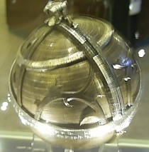 Spherical Astrolabe, item 49687 in the collection of the Museum of the History of Science, Oxford. description from Wikipedia: "I took this picture of a spherical astrolabe in the Museum of the History of Science, Oxford collection and release it under the GFDL."